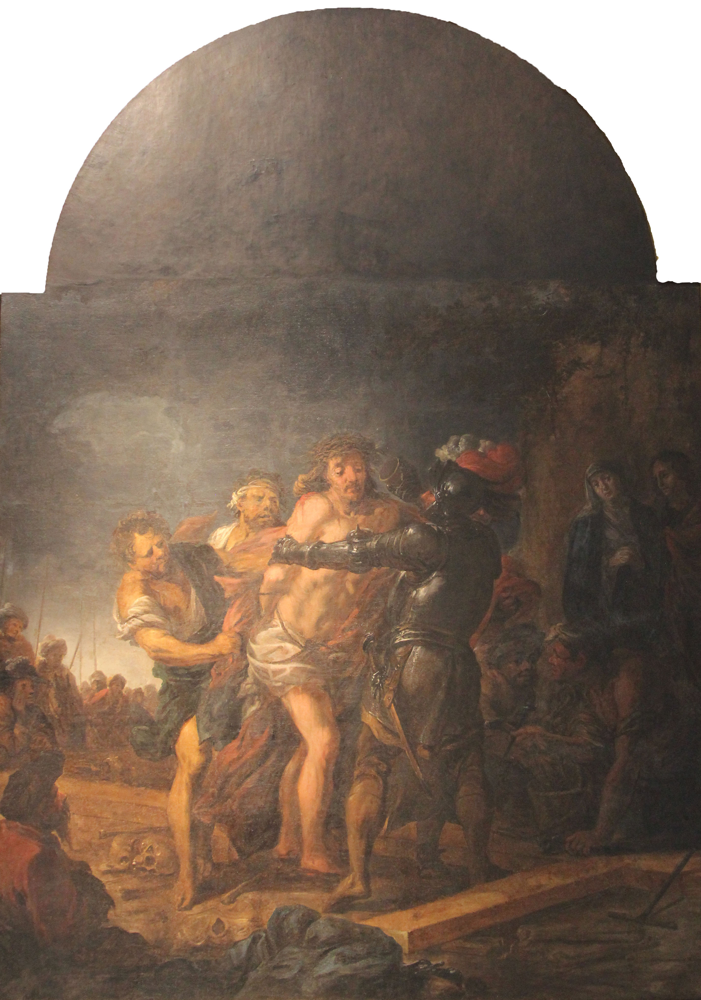 Michael Willman The Disrobement of Christ (circa 1682) from Town Hall in Ząbkowice Śląskie (originally in Cistercian monastery Krzeszów Abbey - chapel of the Sacred Stairs).